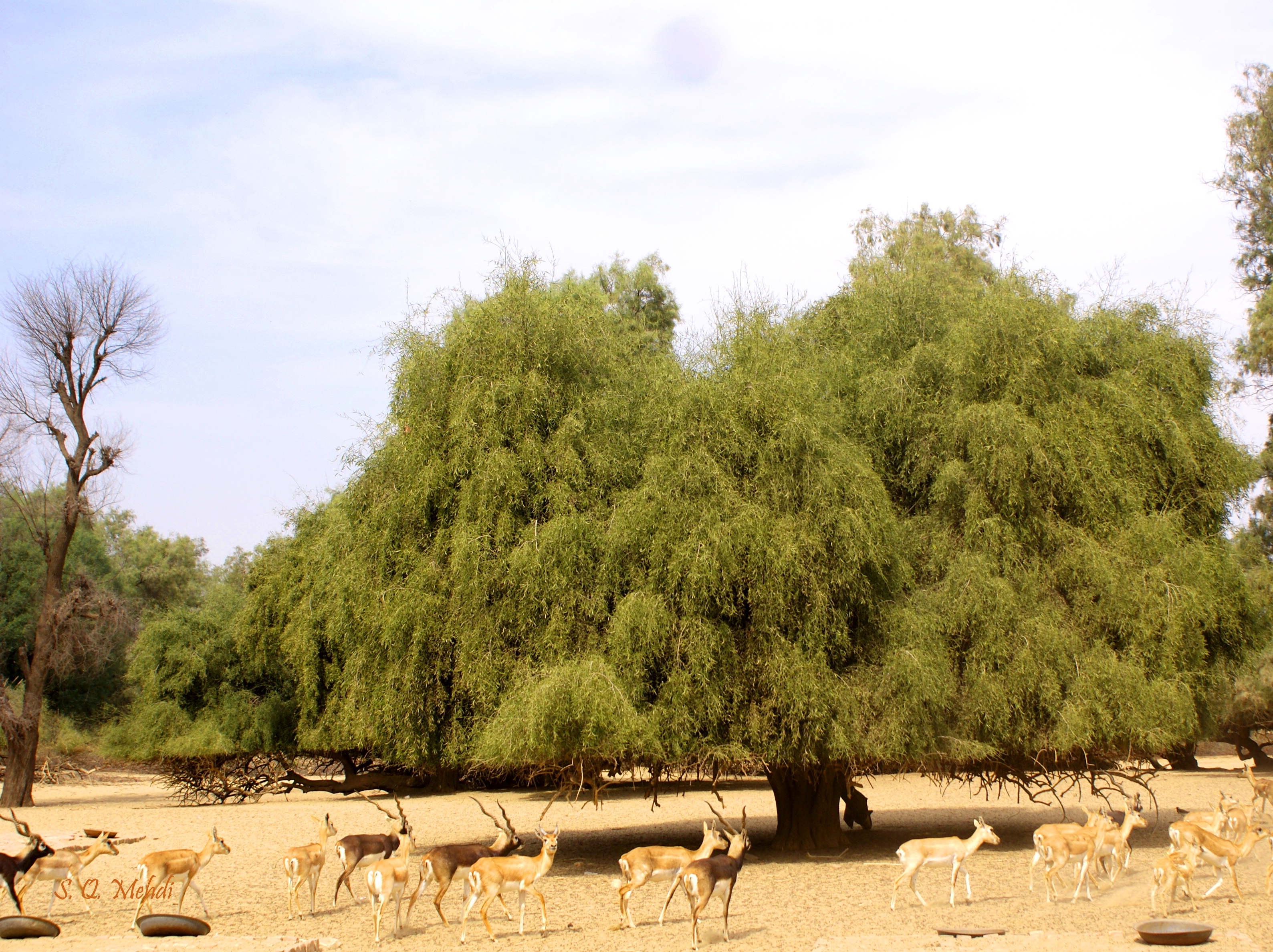 Salvadora persica tree called Peeloo, Jal or Wann in different arid and semi arid areas of sub continent of India and Pakistan